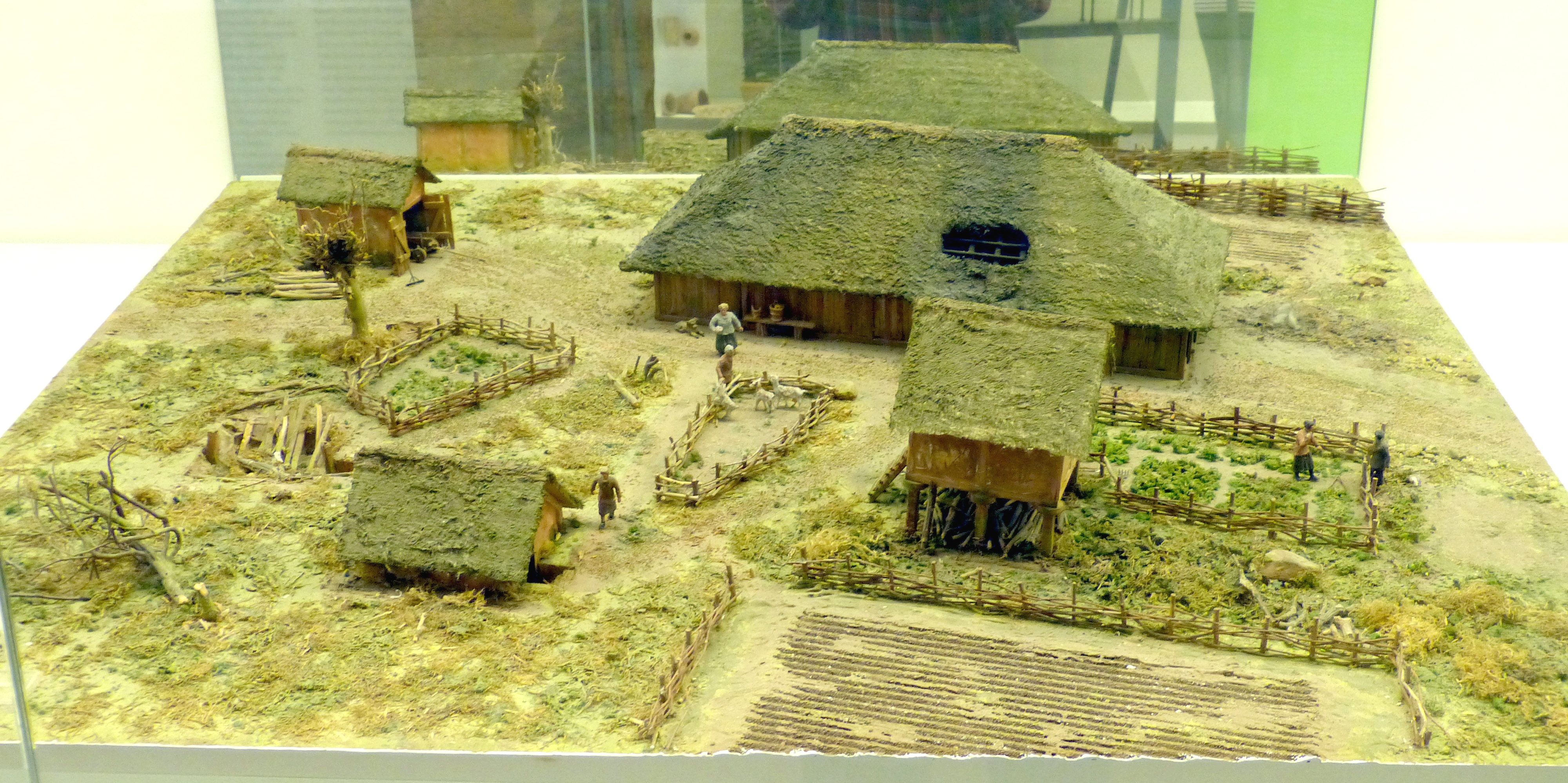 Konstanz ( Baden-Württemberg ). Archaeological Museum of Baden-Württemberg: Model of the early medieval settlement of Mittelhof in Lauchheim.